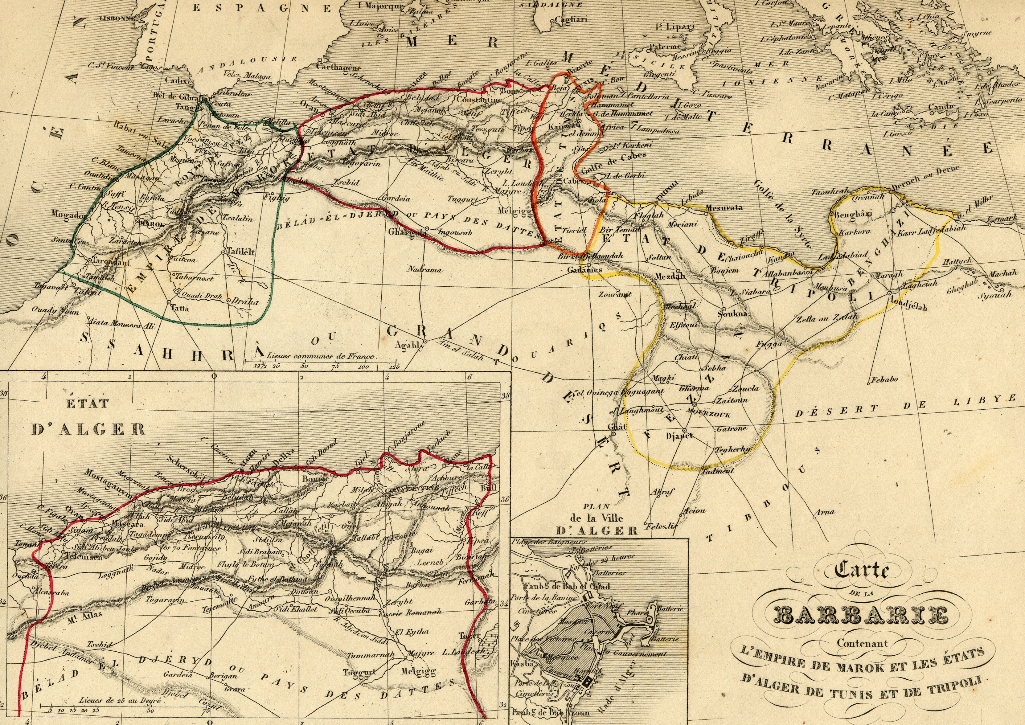 Map of Maghreb / Northern Africa (Morocco, Algeria, Tunisia, Libya) with french names made by Alexandre Vuillemin in 1843 extracted from his “Atlas universel de géographie ancienne et moderne à l'usage des pensionnats”.